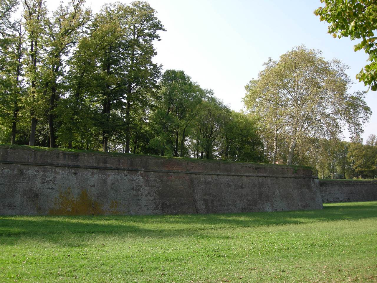 The walls all around Lucca.